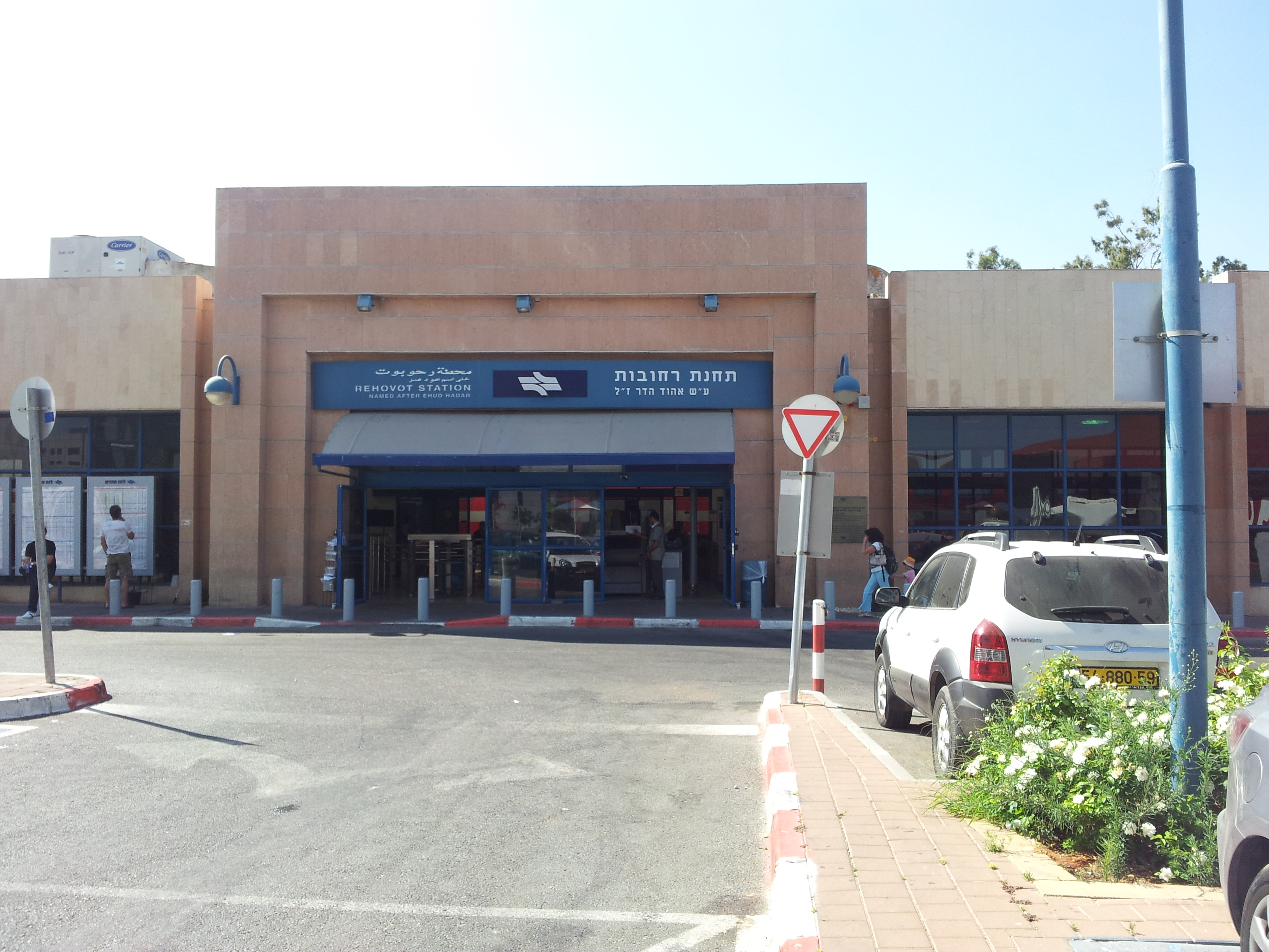 Rehovot train station